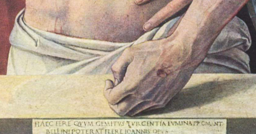 Dead Christ Supported by the Madonna and St Johndetail